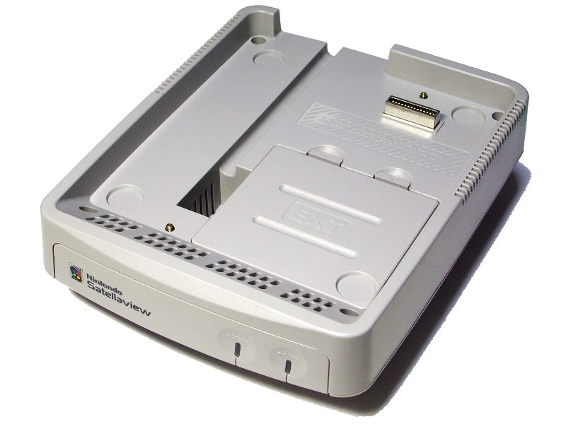 Satellaview (SHVC-029)